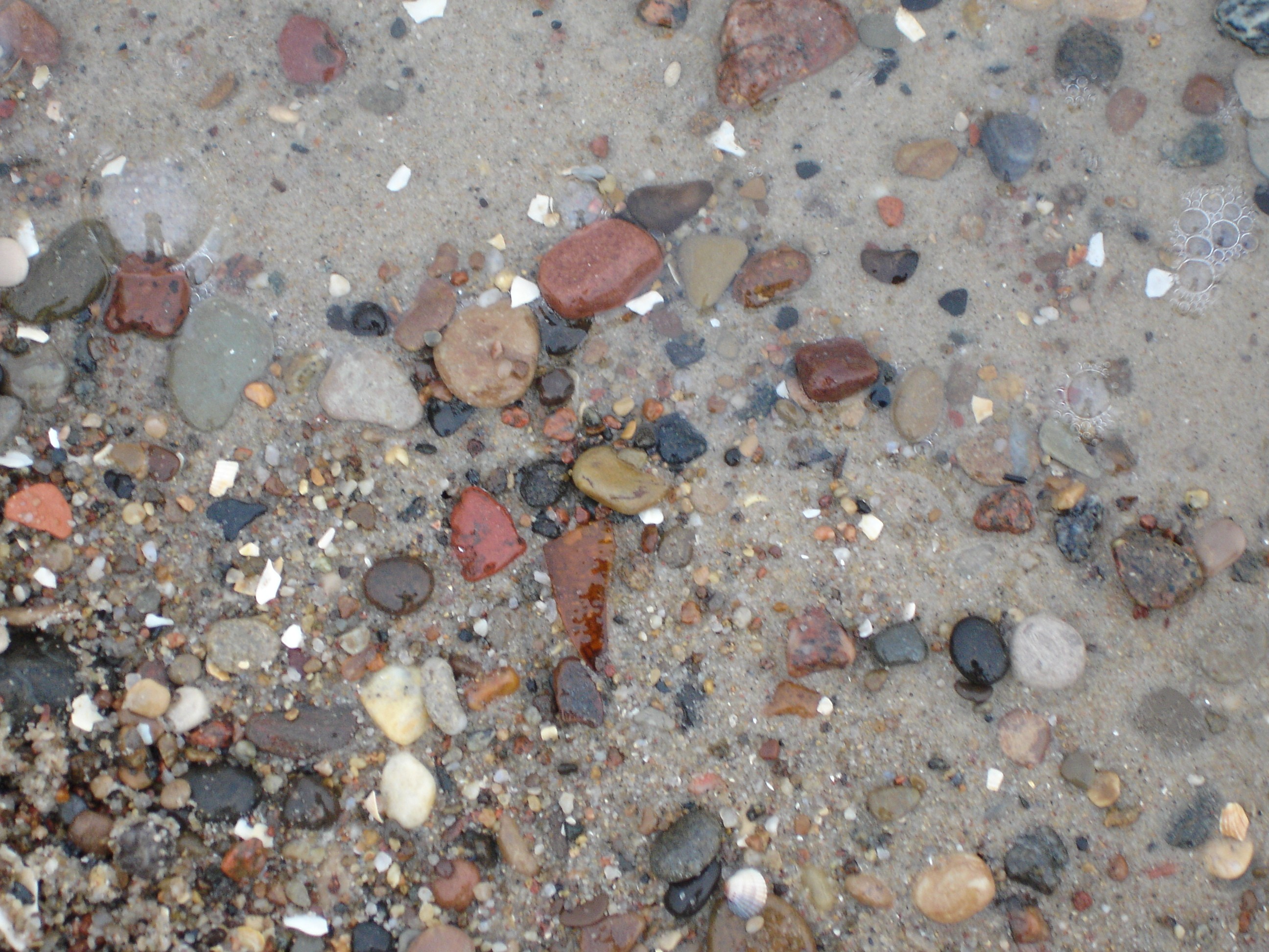 Typical beach sand on the Baltic where amber is washed up. Photo taken in Sopot, Poland.